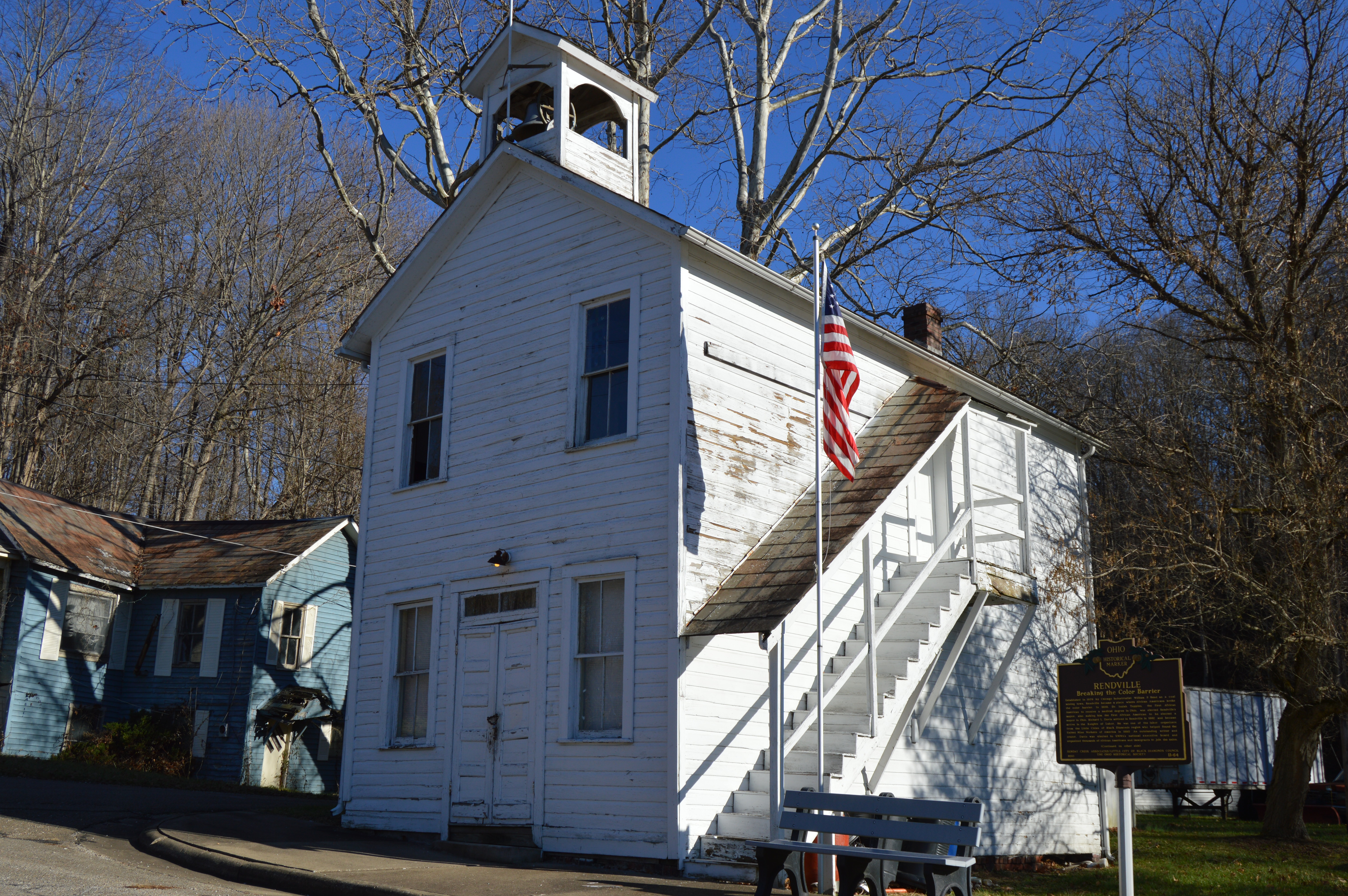 Front and southern side of Village Hall in Rendville, Ohio, United States, located on Main Street just south of Valley Street. Note the historical marker at left, which commemorates Rendville's early black residents.